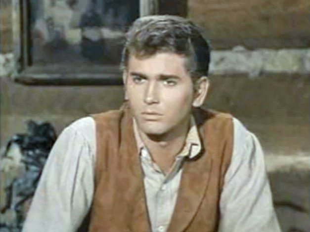 Cropped screenshot of Michael Landon from the television series Bonanza. Episode: "Showdown" (1960).